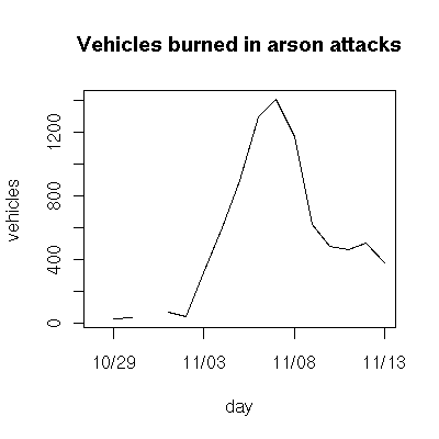 created by Zeno of Elea for the article 2005 civil unrest in France on 9 November 2005.